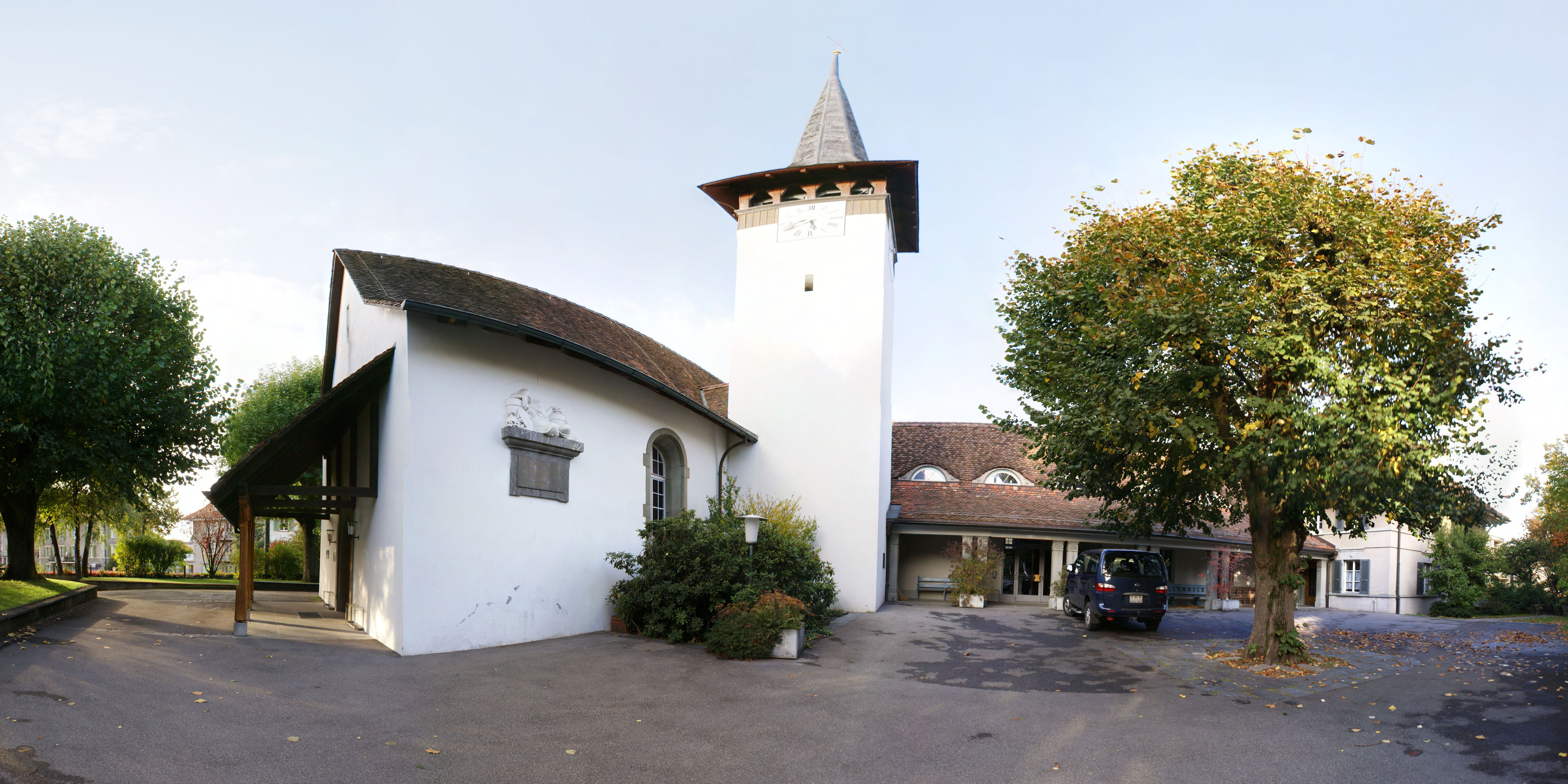 Reformed Church Bümpliz, Berne, Switzerland; formerly St. Maurice. Abraham Dünz 1666.